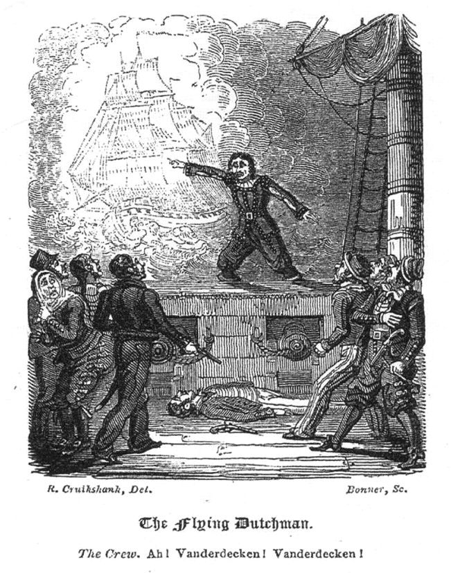 Frontispiece by Robert Cruikshank for Edward Fitzballs "The Flying Dutchman; or The Phantom Ship" (Cumberland’s Minor Theatre II, London, 1829).